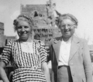 Marie Josse (1897-1974) and Elisa Josse (1897-1973), sisters, Righteous among the Nations